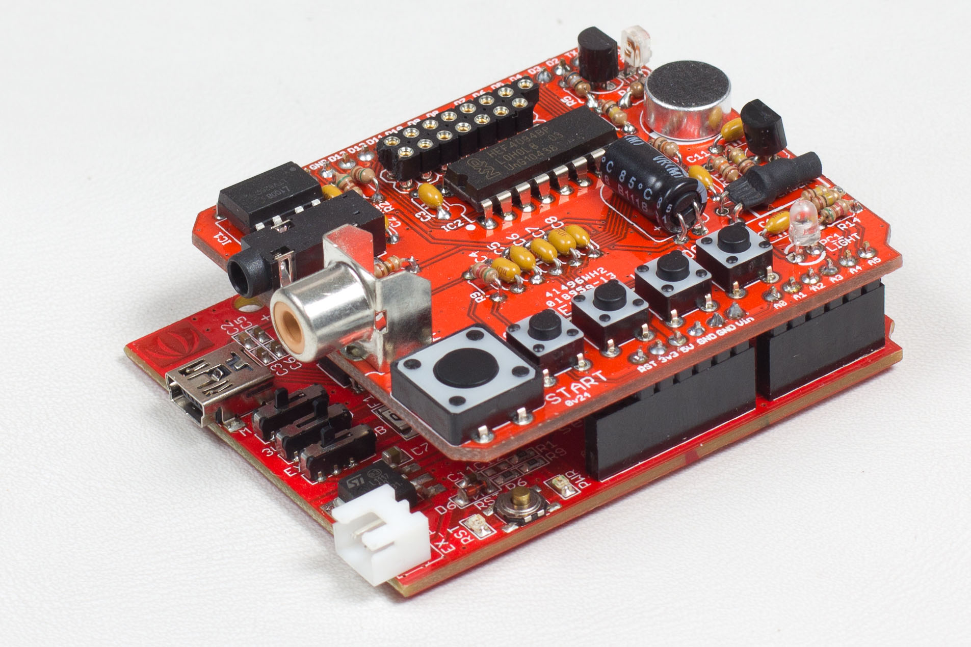 Arduino placed on Triggertrap sheild